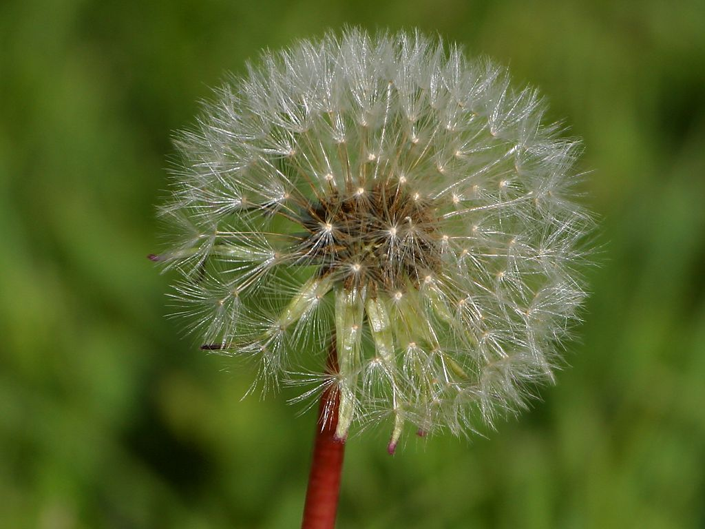 Dandelion (Taraxacum). – "The whole time I was there I didn't see one single person who seemed happy. Seriously. Everyone seemed worn down and beat. Like maybe they'd just given up on whatever it was they'd hoped for."